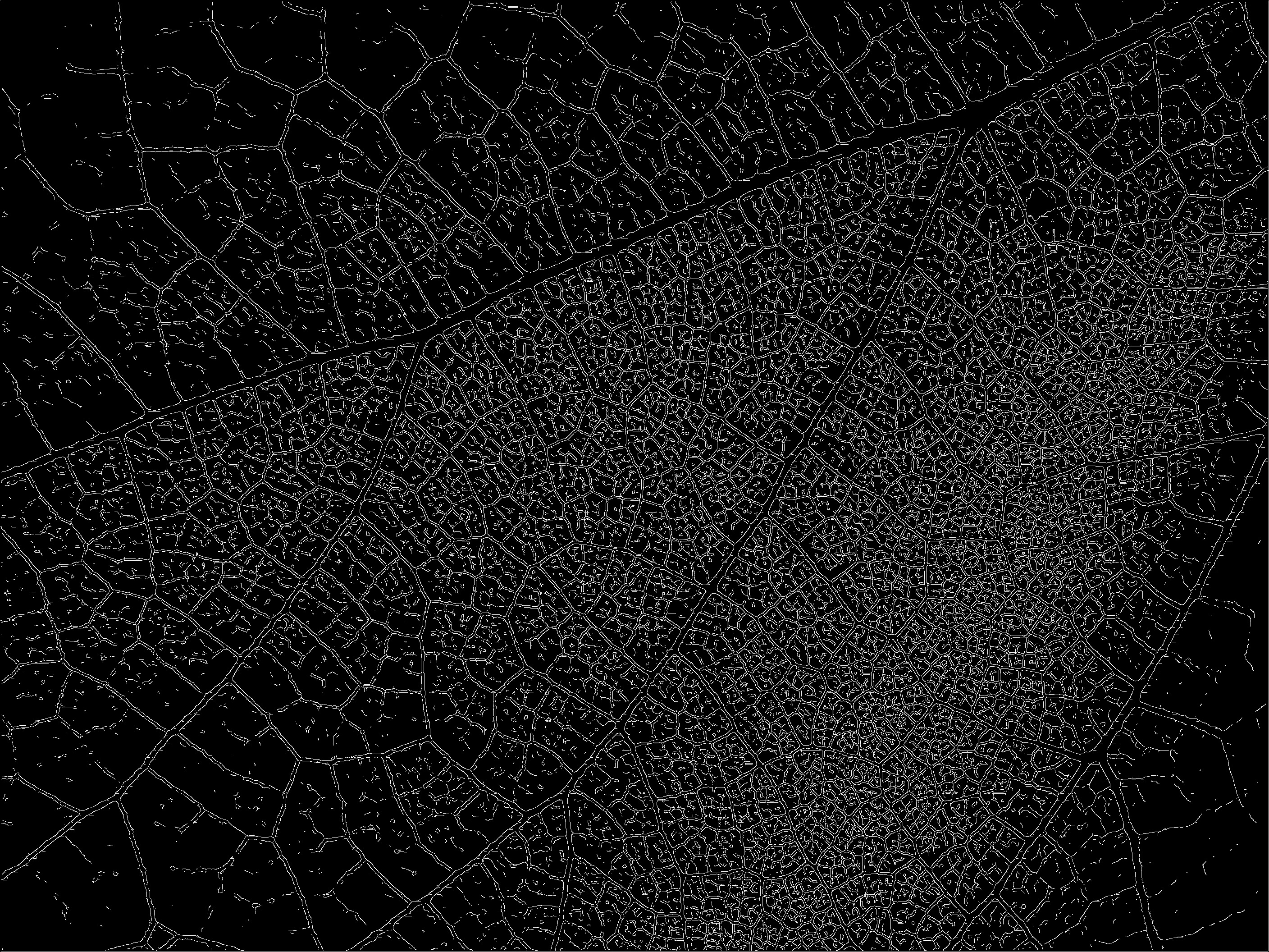 Grapevine leaf picture after applying Deriche edge detector with parameters alpha = 1, low_treshold = 15, high_treshold = 35.